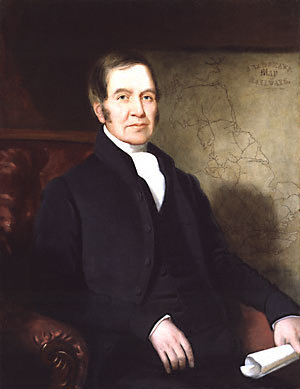 Image of George Bradshaw, scanned from a book published in the 1890s.